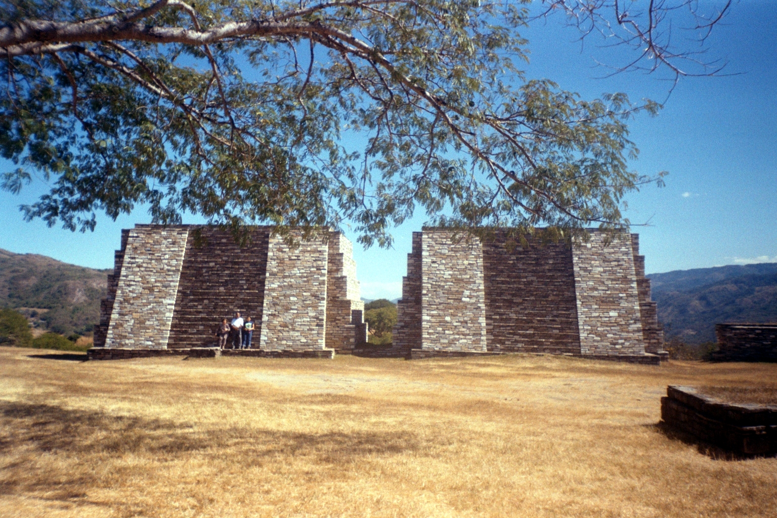 Twin pyramids in Group B, Mixco Viejo. Chimaltenango Department, Guatemala.